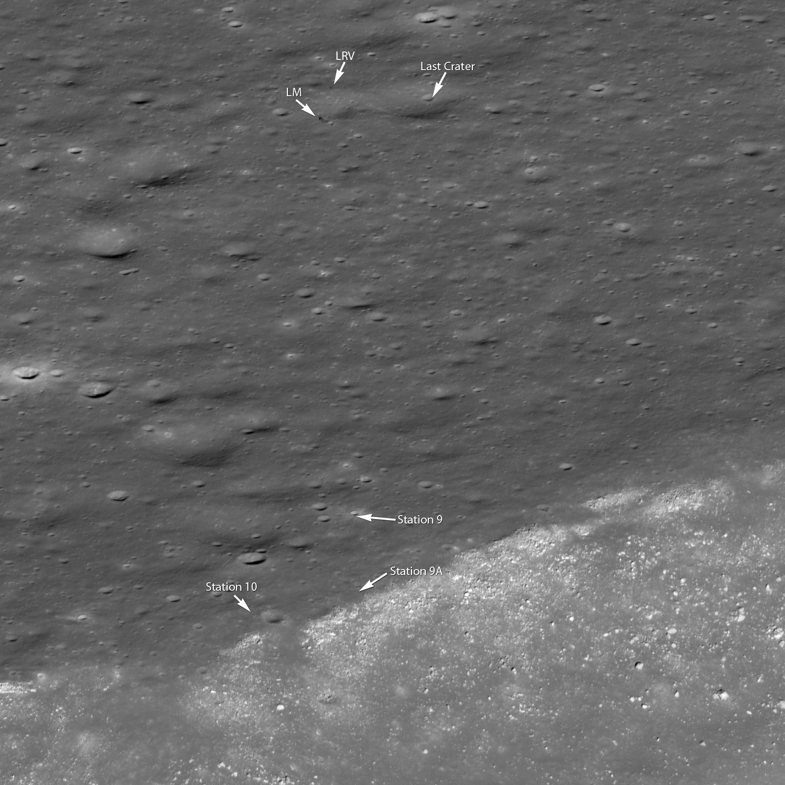 On 20 July 2011 (coincidentally, the 42nd anniversary of the first steps humans took on another world) the NASA Lunar Reconnaissance Orbiter was commanded to roll to the east, allowing the Lunar Reconnaissance Orbiter Camera to obliquely observe Hadley rille and the Apollo 15 landing site. The shadow of the descent stage of the Lunar Module Falcon is visible, as is that of NASA's first lunar roving vehicle. Additionally, the sampling stations explored by the Apollo 15 astronauts are easy to pick out.